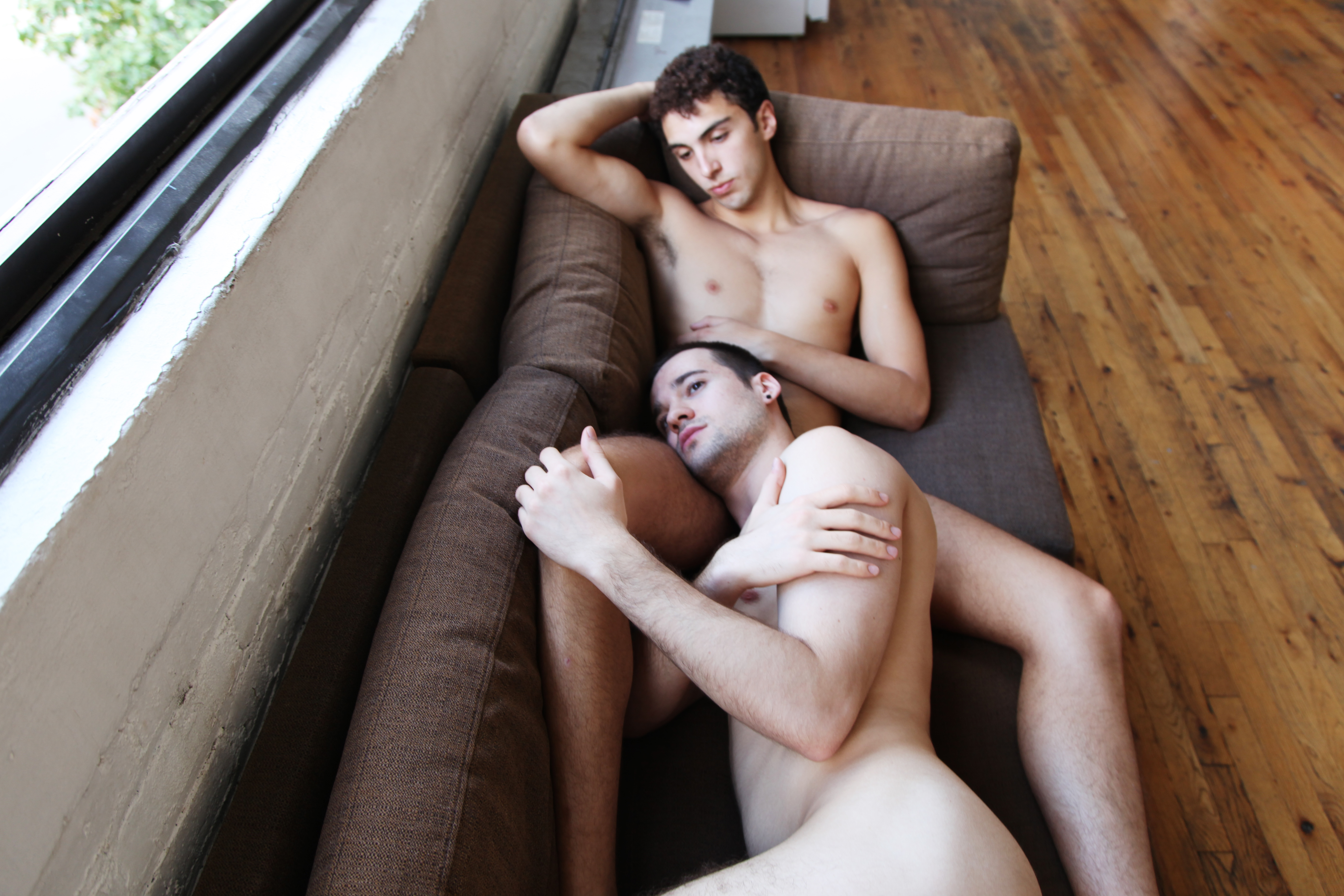 Stas and Calvin reclining.